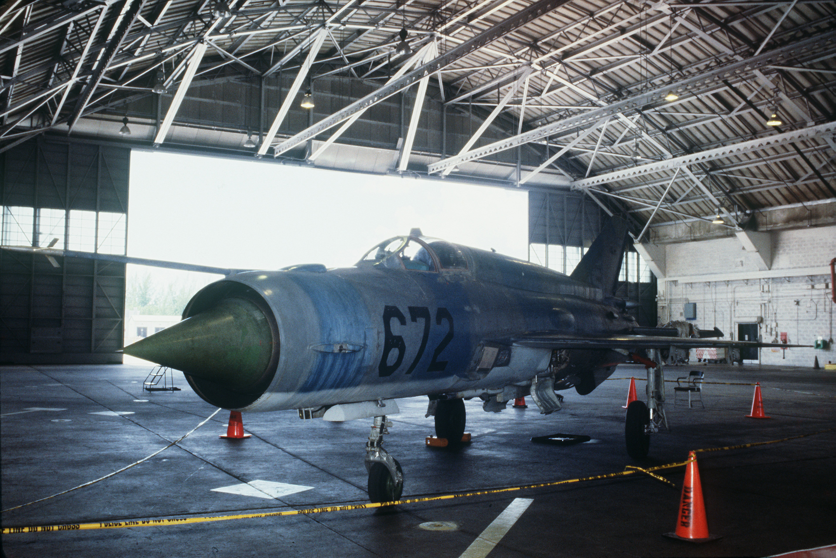 A left side view of a Cuban MiG-21 fighter aircraft inside VF-45 hangar. It was flown to Key West on September 20, 1993 by a defecting Cuban pilot, Location: NAVAL AIR STATION, KEY WEST, FLORIDA (FL) UNITED STATES OF AMERICA (USA)